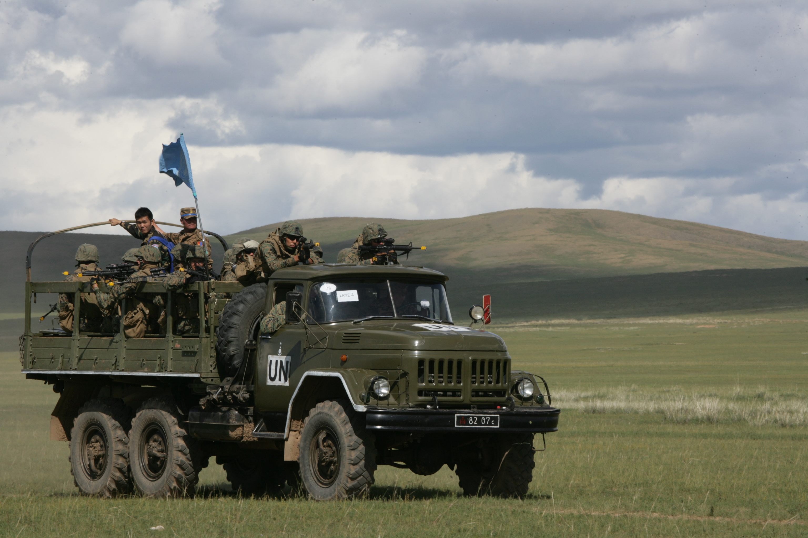 U.S. Marines ride in a United Nations' Zil-131 truck to provide security for supply trucks during a convoy operations scenario at exercise Khaan Quest 2009 in Five Hills Training Area, Mongolia, August 19, 2009. Six scenarios will be conducted during Khaan Quest to train multinational forces in UN procedures.